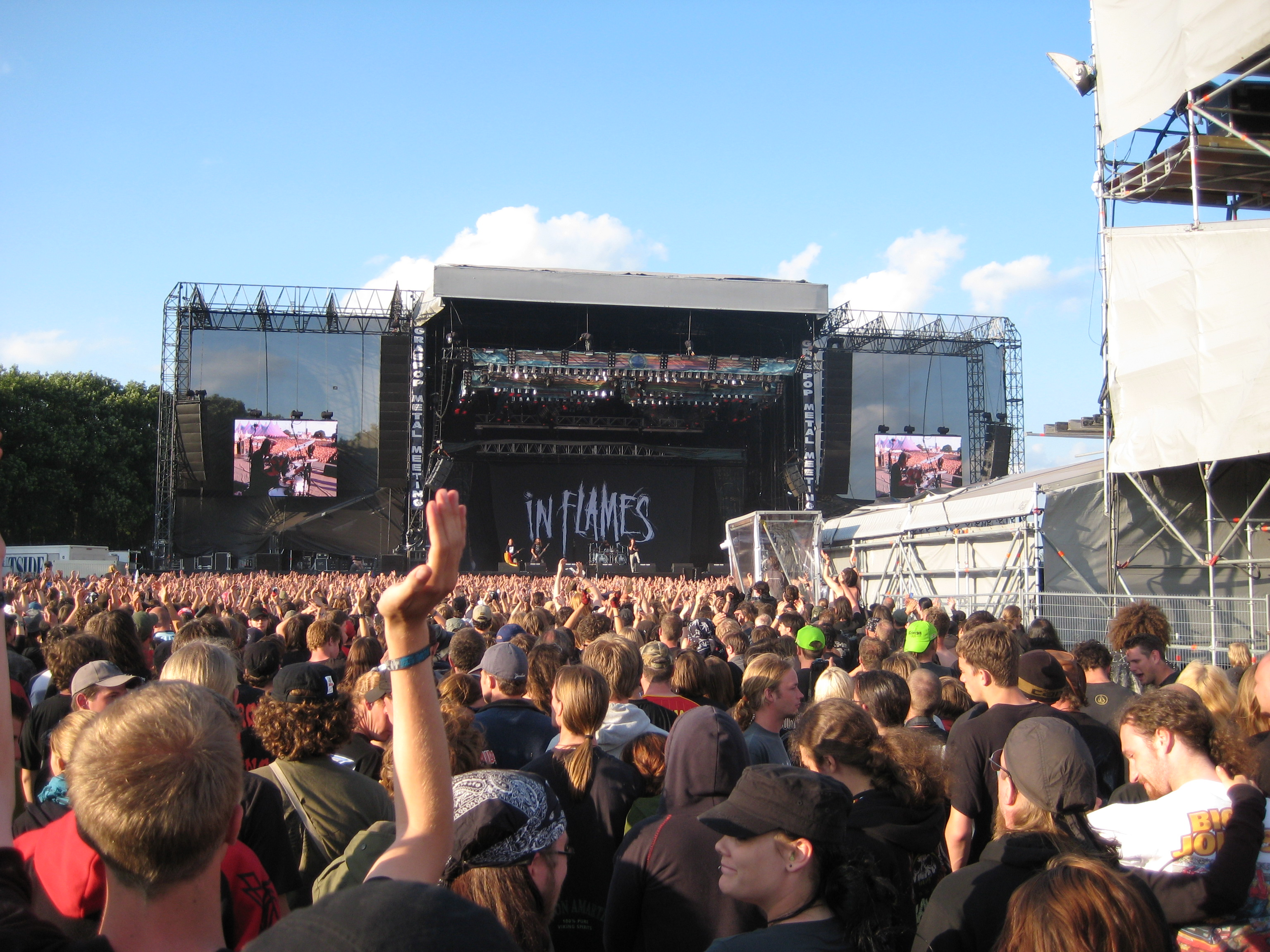 In Flames performs at Graspop 2008